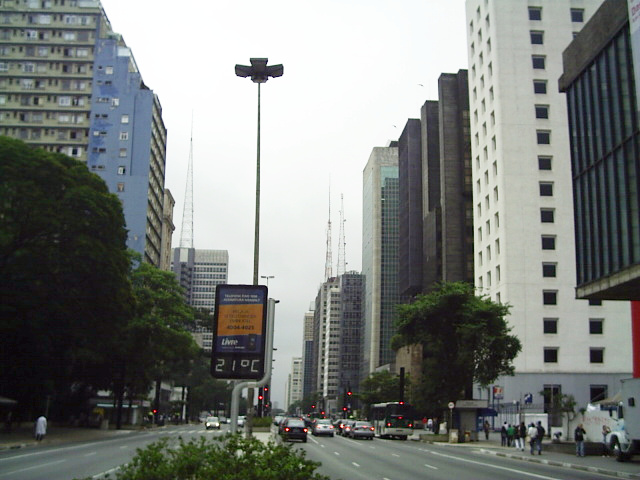 Paulista Avenue in São Paulo City.